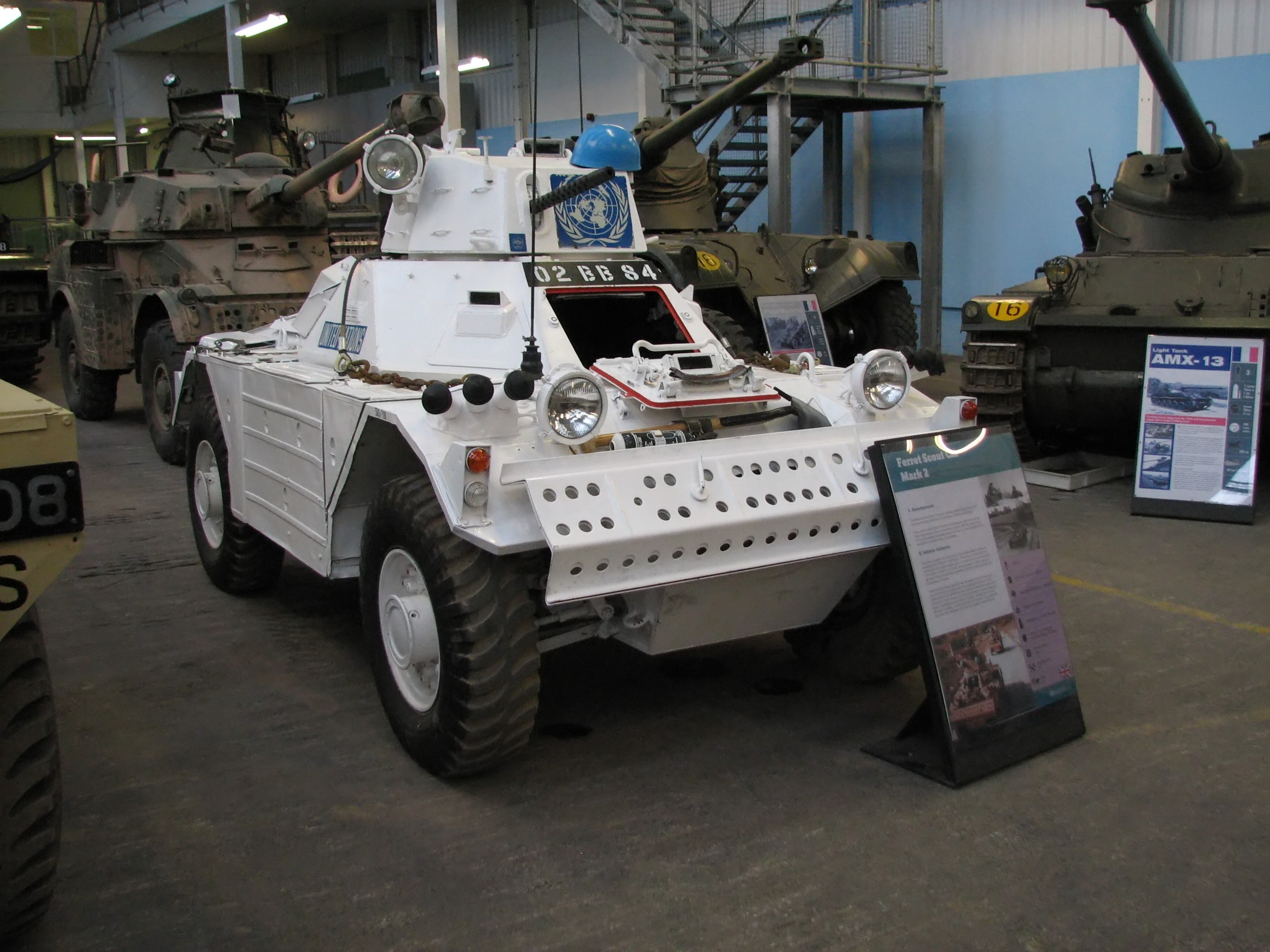 United Nations Daimler Ferret Mark 2 painted for UN peacekeeping duties e.g. with UNFICYP on Cyprus. This specimen is at Bovington Tank Museum.